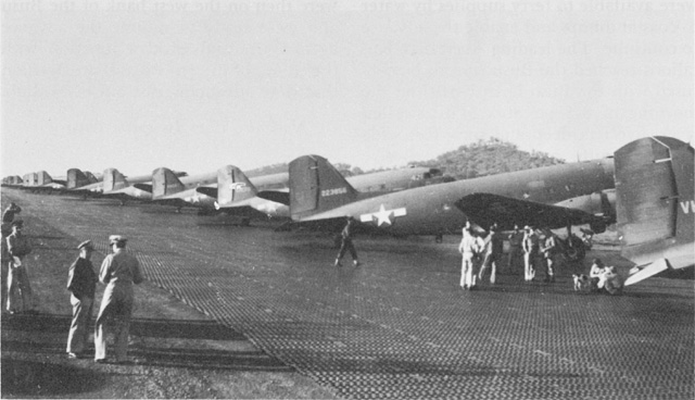 C-47 transport planes loaded with parachute troops for the drop at Nadzab. Two men at left are General George Kenney and General Douglas MacArthur.